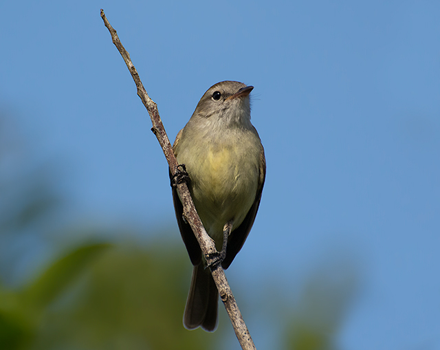 Mouse-colored Tyrannulet